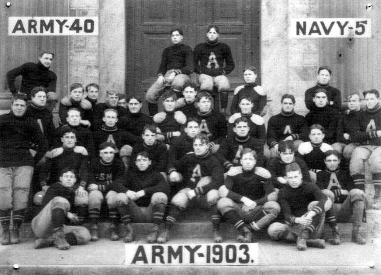 1903 Army Football Team - Horatio B. Hackett front and center, indicating score of victory over Naval Academy that year.